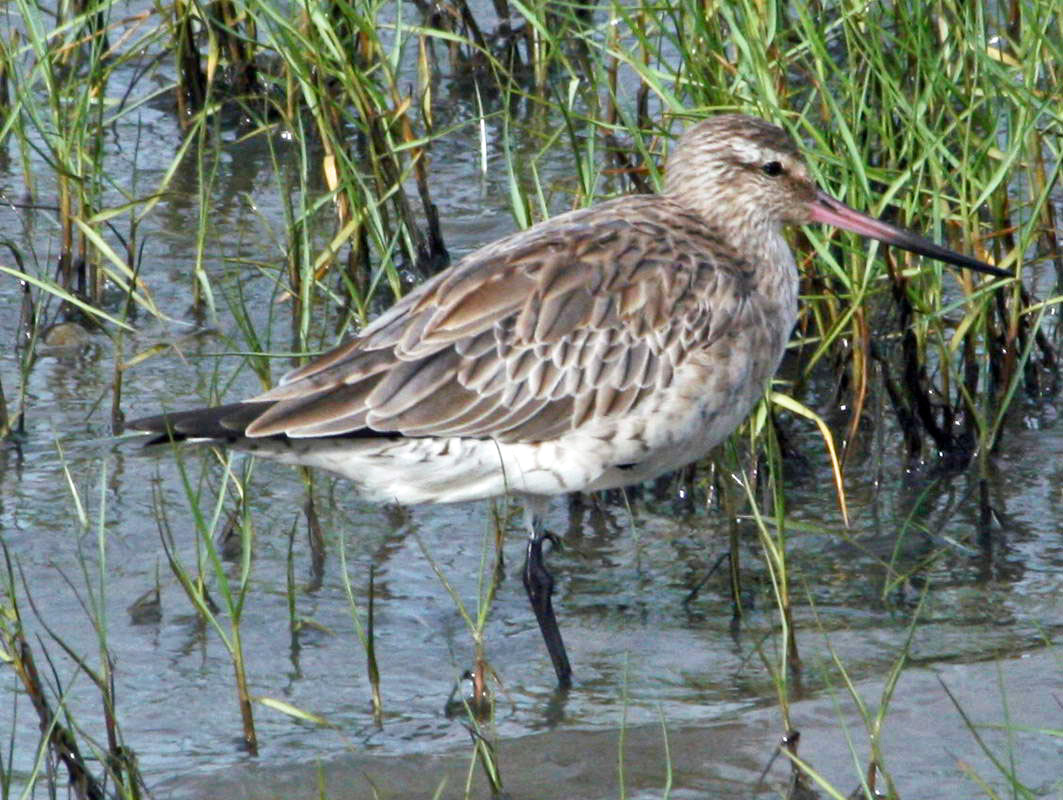 Bar-tailed Godwit (Limosa lapponica) in non breeding plumage - Cairns, Australia